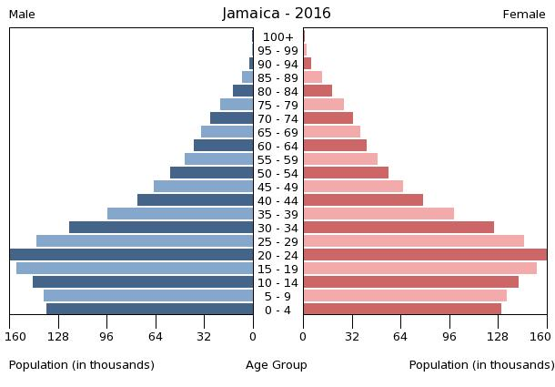 The population pyramid of Jamaica illustrates the age and sex structure of population and may provide insights about political and social stability, as well as economic development. The population is distributed along the horizontal axis, with males shown on the left and females on the right. The male and female populations are broken down into 5-year age groups represented as horizontal bars along the vertical axis, with the youngest age groups at the bottom and the oldest at the top. The shape of the population pyramid gradually evolves over time based on fertility, mortality, and international migration trends.